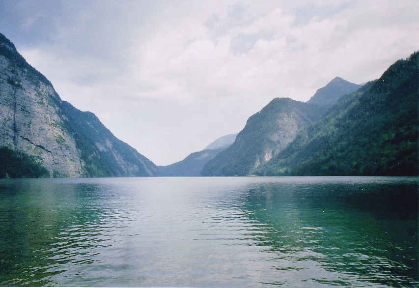 The Königssee in Bavaria, Germany.